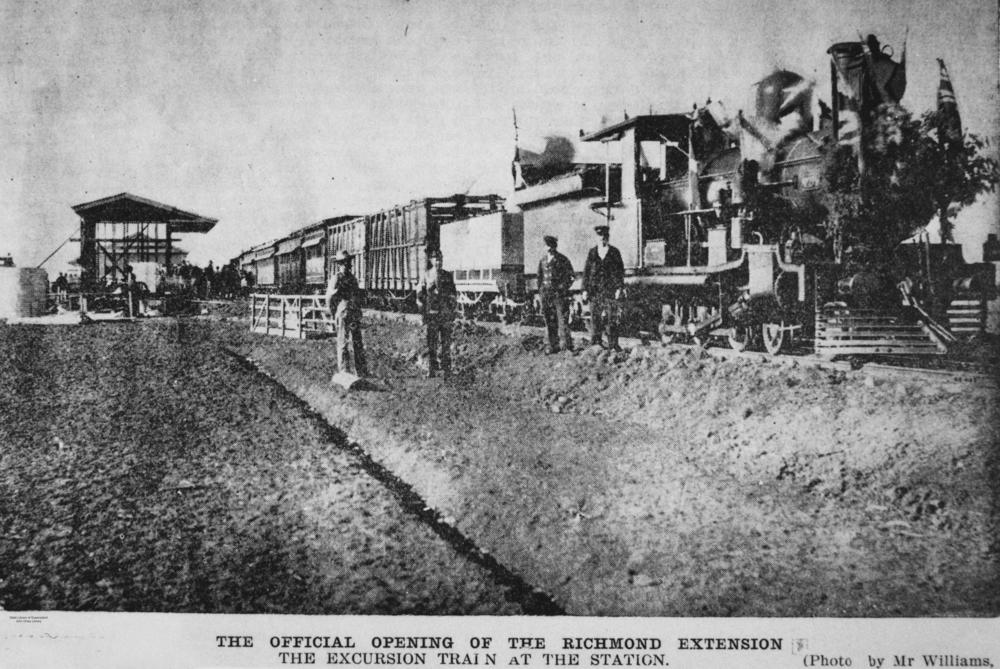 Official opening of the Hughenden to Richmond railway line, 1904. The official opening of the Richmond extension. The excursion train at the station. [Caption on photograph] Construction west from Hughenden, 114 kilometres to Richmond, began in July 1902. The line opened through to Richmond on the 1st June 1904. [Information taken from John Kerr, Triumph of narrow gauge: a history of Queensland Railways, 1990] Original photographer: Mr Williams, Winton.